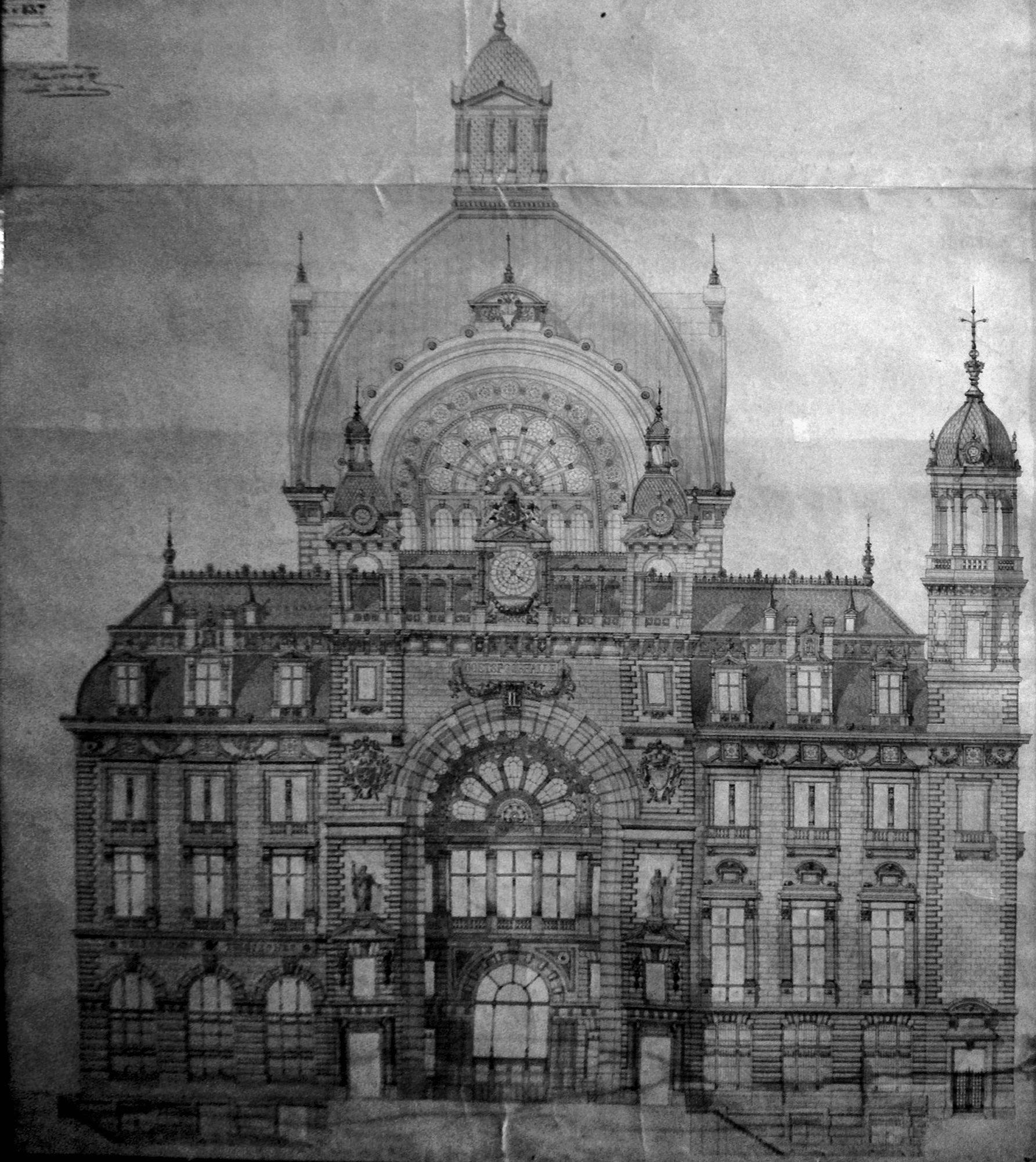 Original blueprint for Antwerpen-Centraal railway station by architect Louis Delacenserie (1838-1909)